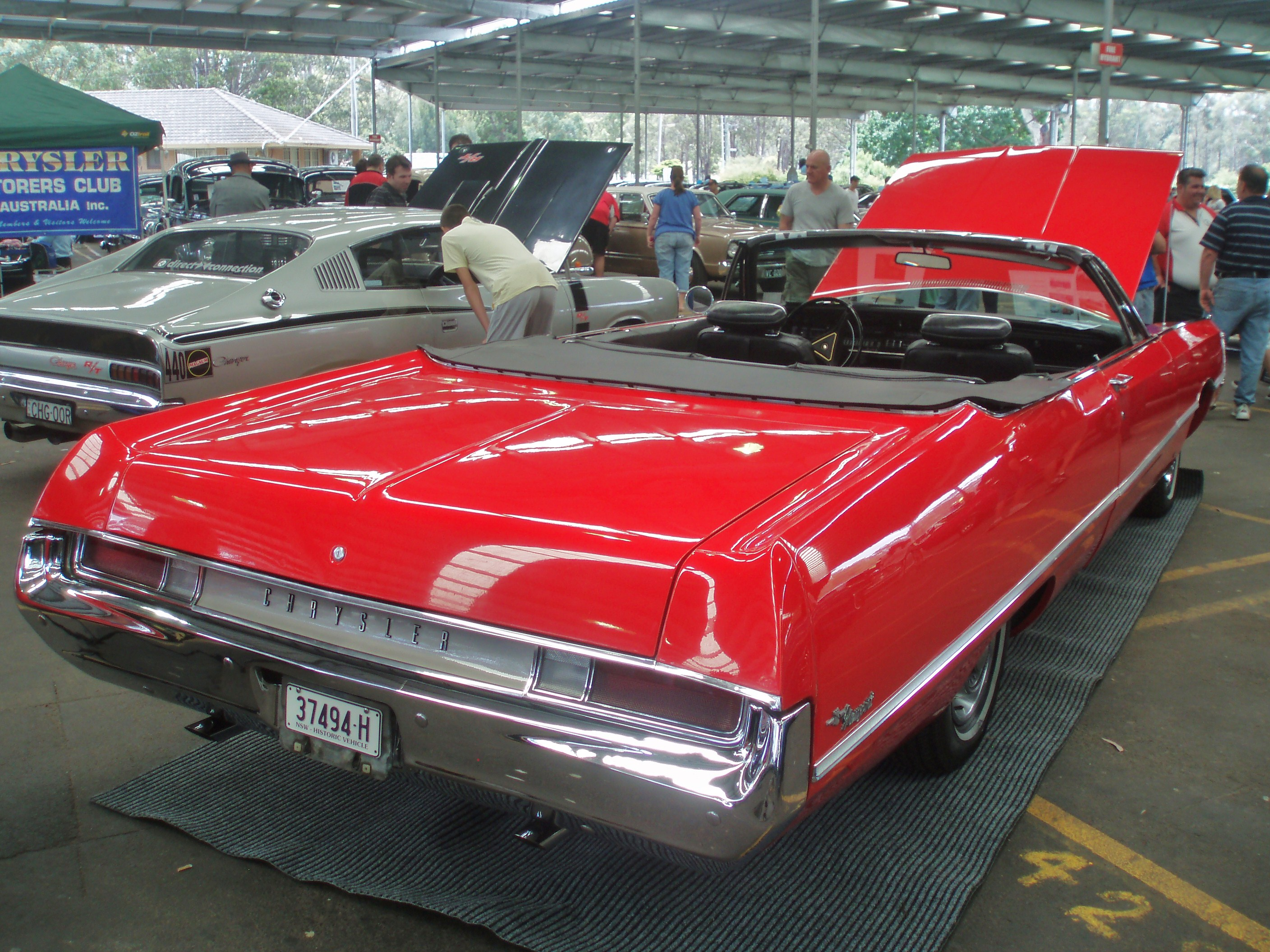 1969 Chrysler Newport convertible. Taken at the 2010 New South Wales All Chrysler Day, held at Fairfield Showground, Prairiewood, Sydney.